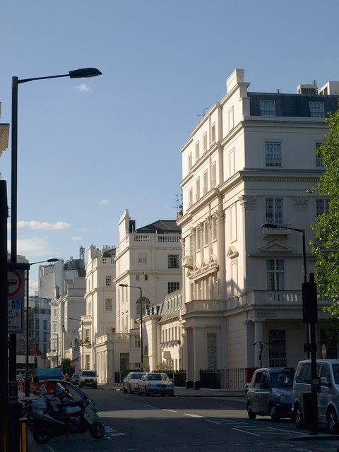 Lyall Street The north side of the street, seen here from across Eaton Square, is dominated by blocks forming the ends of terraces on cross roads, including the west side of the square itself and Eaton Place.